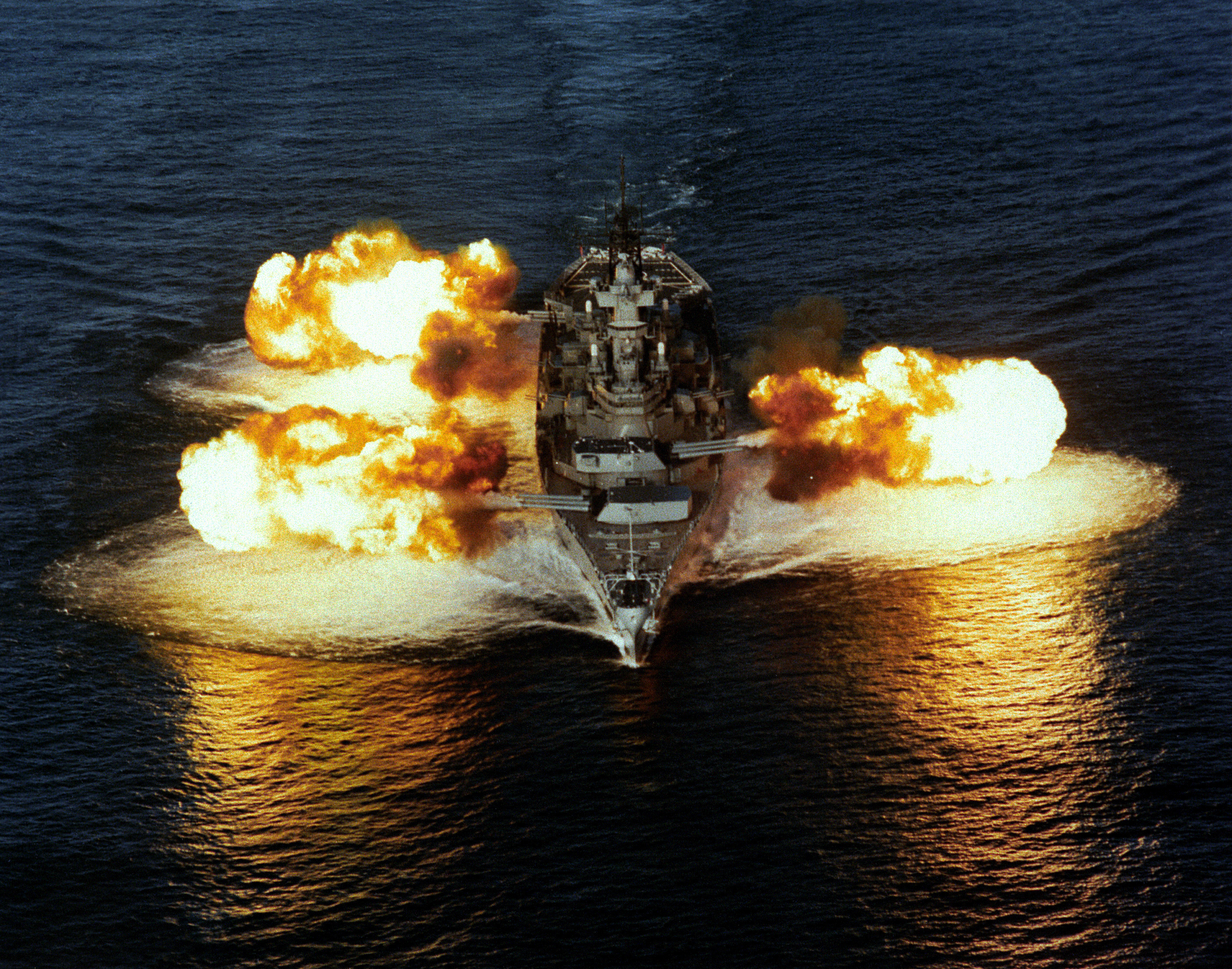 Aerial bow view of the Iowa-Class Battleship USS NEW JERSEY (BB-62) firing its nine 16-inch/50 caliber guns simultaneously.